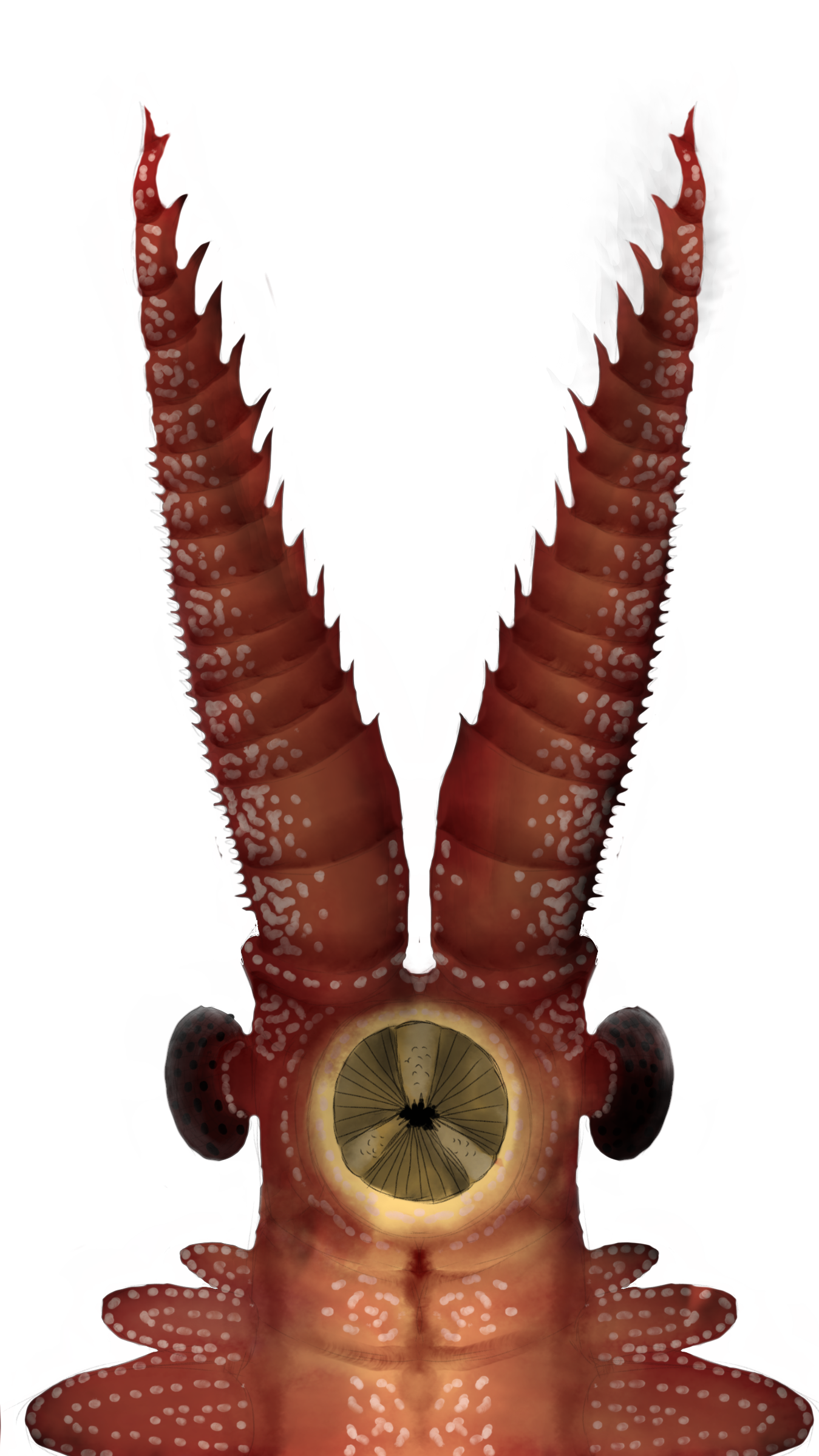 A reconstruction of Carysyntrips.